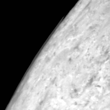 Image taken by Voyager 2 as it passed by Neptune's moon, Triton. Limb clouds over Triton's south polar cap. Image is stretched to enhance the limb clouds and surface features. The image shows the cloud on the west limb that extends about 100 kilometres (62 mi) along the limb and appears detached over much of its length